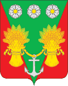 Coat of arrms of Vannovskoye